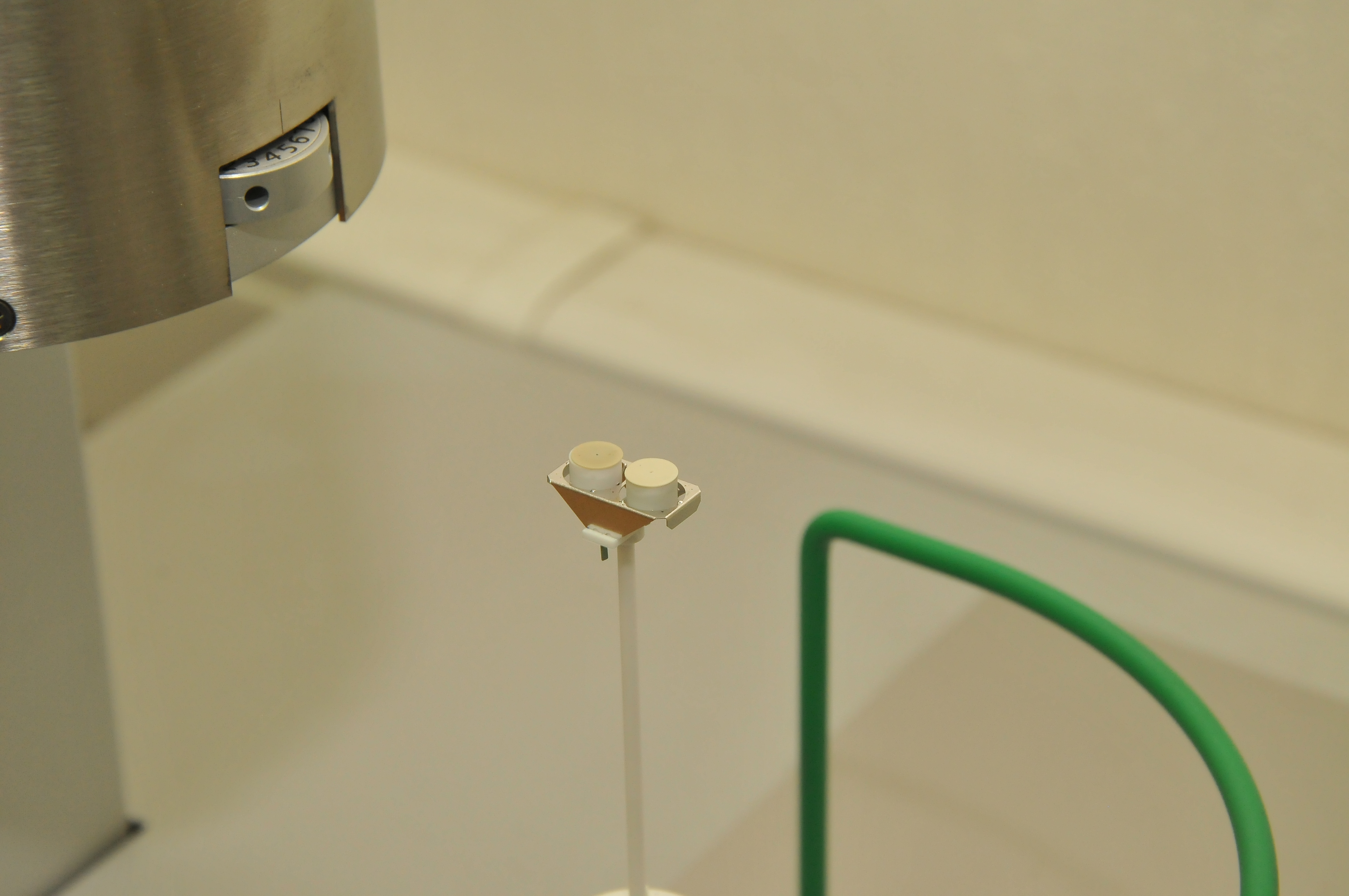 DSC/TG sample holder with Al2O3 crucibles